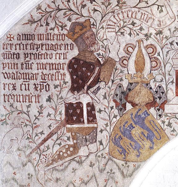 Waldemar IV of Denmark (Valdemar Atterdag) shown on 14th century fresco in Næstved's Saint Peter's Church (Sankt Peders Kirke). The fresco was created shortly after the king's death, and rediscovered in the late 19th century. The three lions in the king's coat of arms are 19th century reconstructions based on a preserved seal used by king Valdemar.